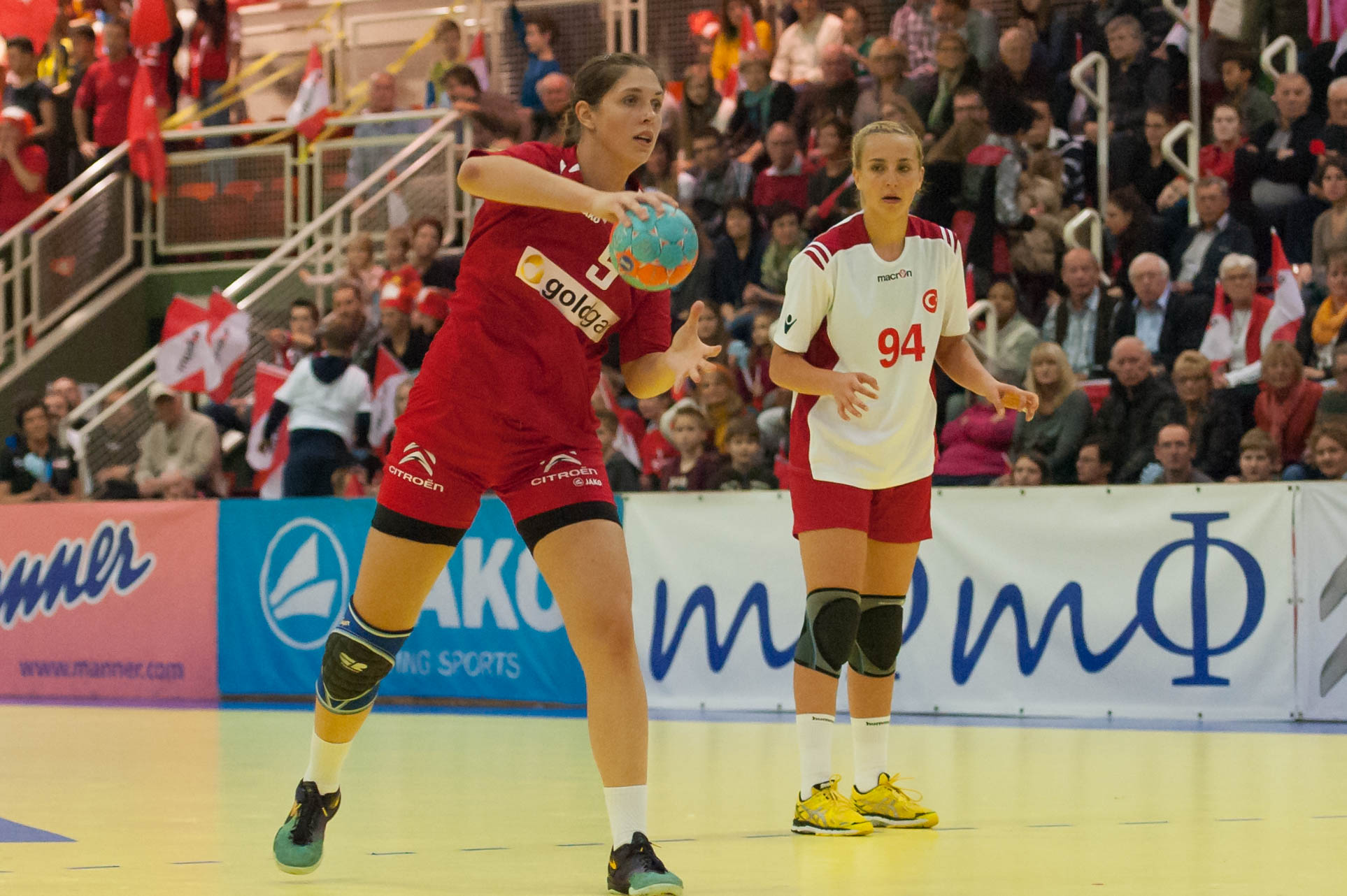 2015 World Women's Handball Championship Qualification 2014-12-06: Laura Magelinskas, Merve Adiyaman